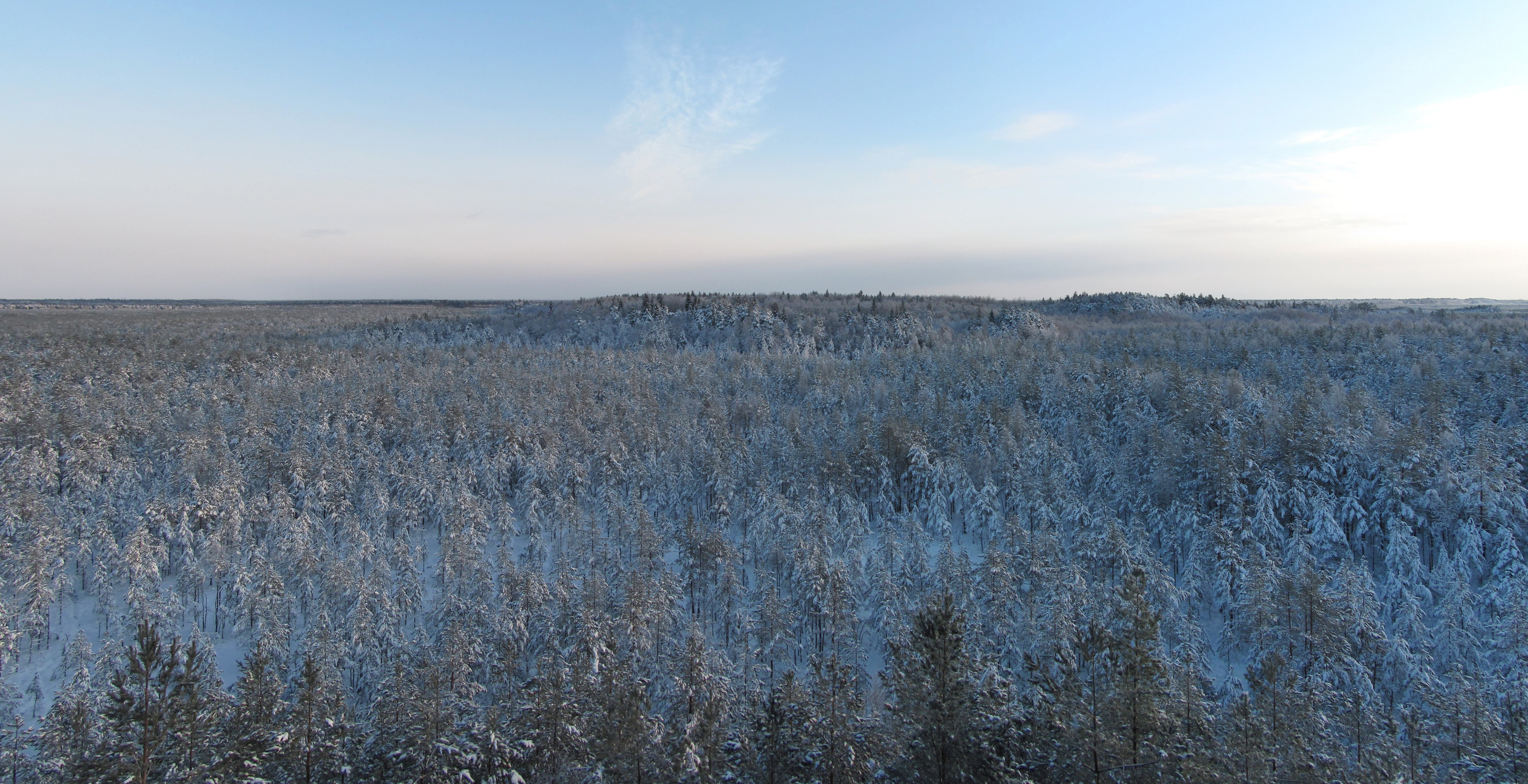 Winter scene from Alam-Pedja Nature Reserve, Estonia.